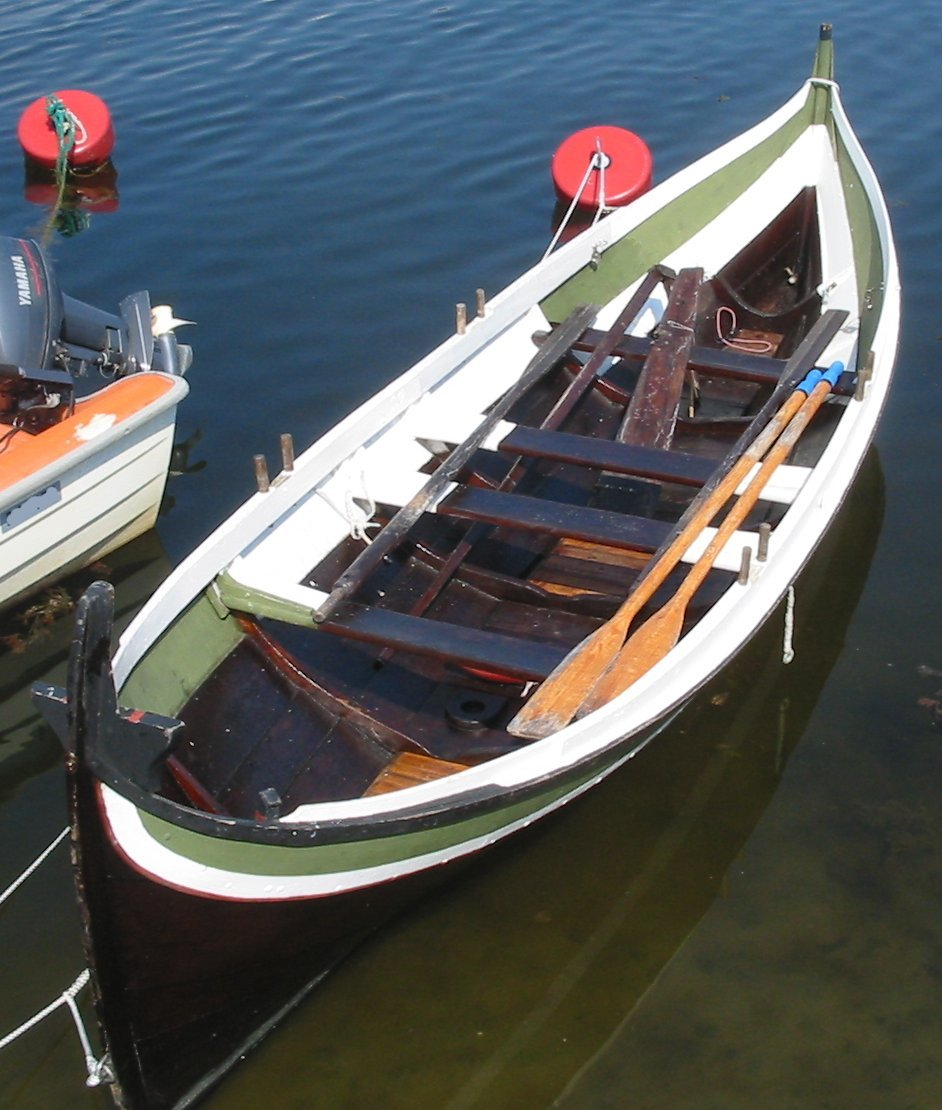 Nordland boat: An example built in Rana, 2005.